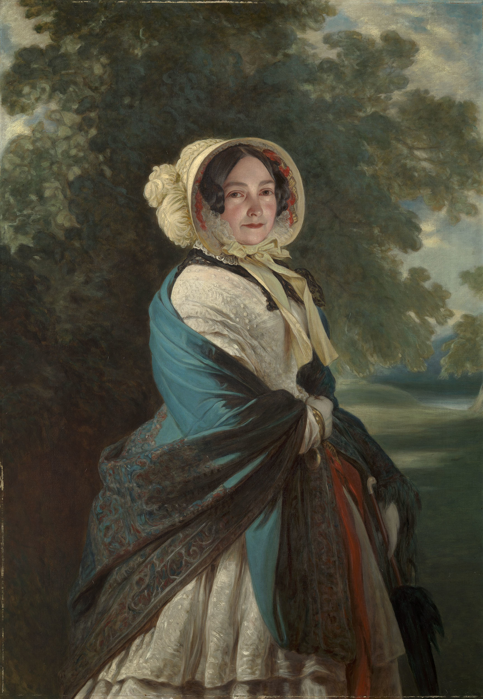 Portrait of Victoria, Duchess of Kent